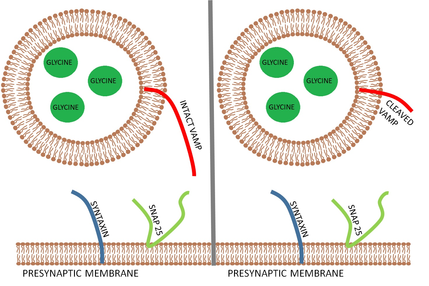 This figure shows a vesicle full of the neurotransmitter Glycine at the postsynaptic membrane. Tetanus toxin cleaves the VAMP protein, which is essential for vesicle fusion and neurotransmitter release. With the VAMP protein cleaved, the neurotransmitter cannot be released into the synapse.